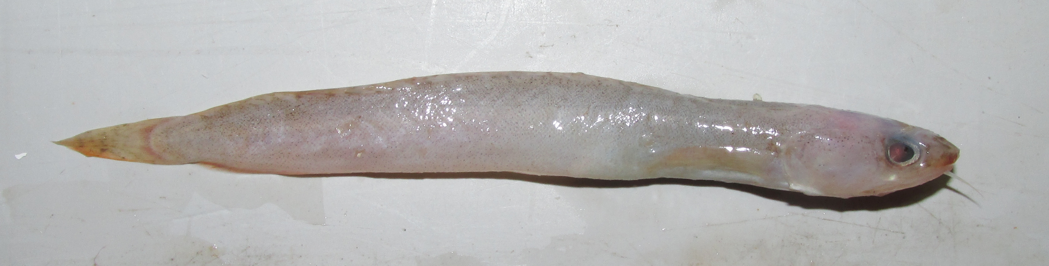 Mediterranean bigeye rockling (Gaidropsarus biscayensis) trawled at 500 m depth, Tuscan Archipelago